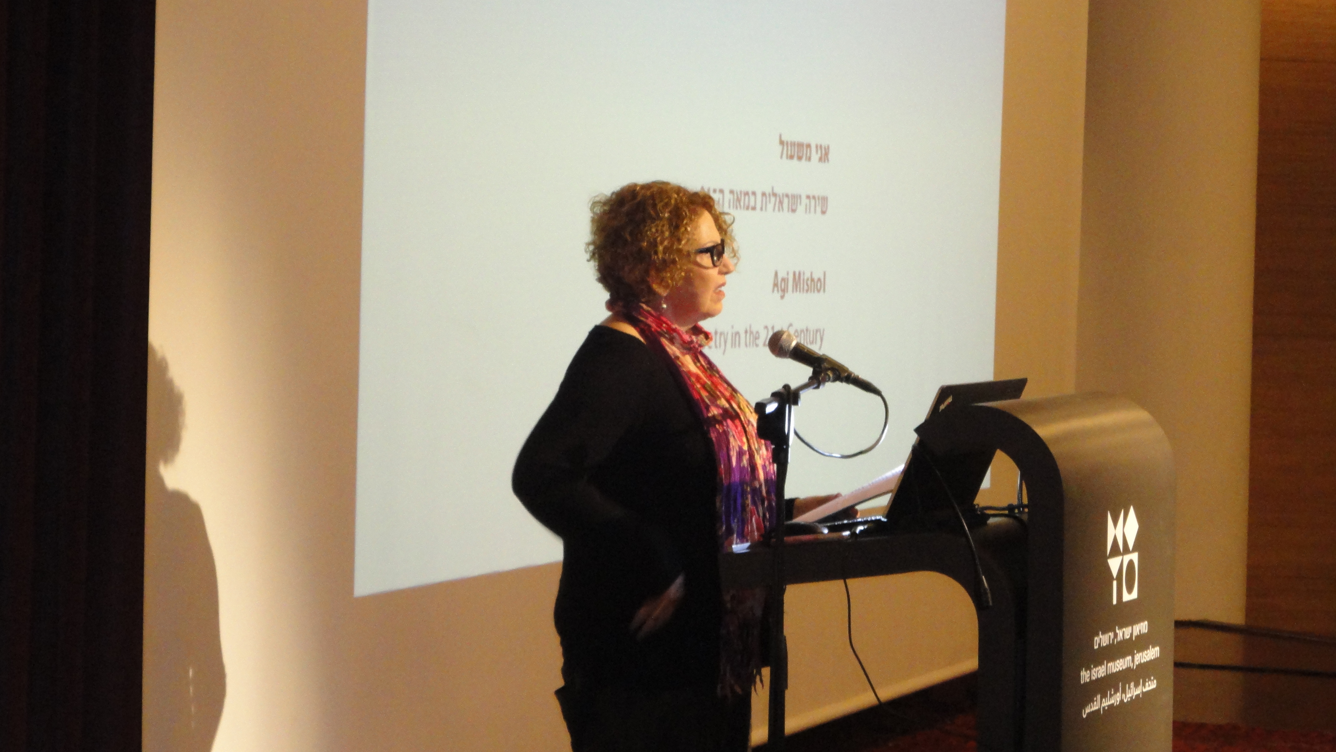 Creative Arts in Israel in the 21st Century – The First Dozen Years Leading artists and scholars gather in an unprecedented attempt to characterize Israeli artistic production – in the visual and performing arts, architecture and design, literature, music, cinema and television – in the 21st century. This multidisciplinary event comprises intriguing lectures and discussions, complemented by audiovisual materials and the presentation of selected works by their creators. Tues-Wed | December 18-19 / 10 am - 7 pm